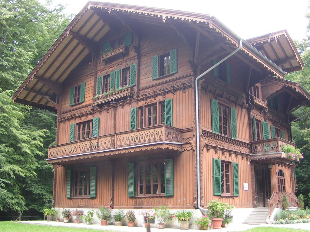 A rich house from the Bernese Midlands area of Switzerland, now located the in Ballenberg open air museum.